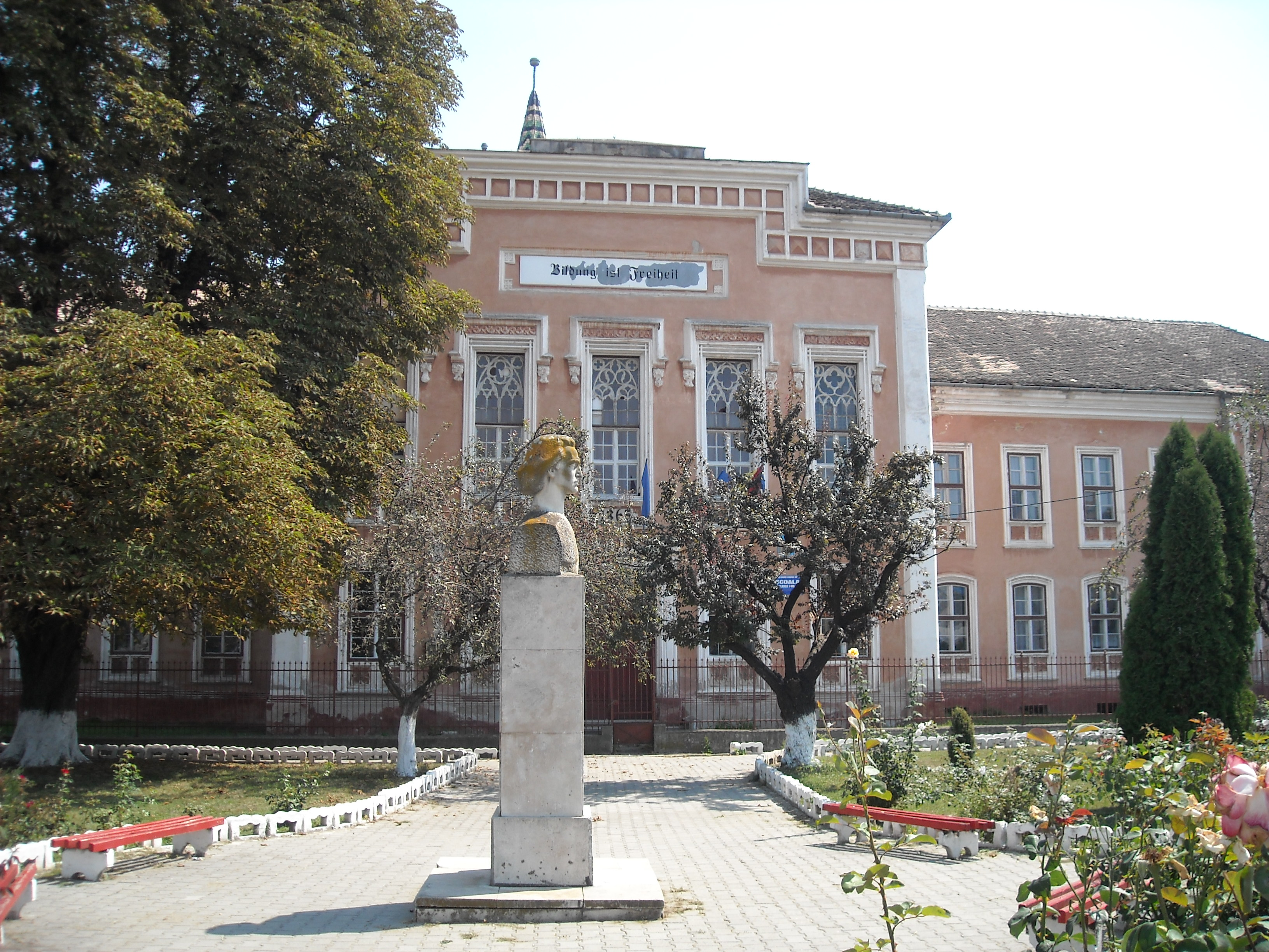 the former lutheran Gymnasium in Sebeş (Mühlbach)